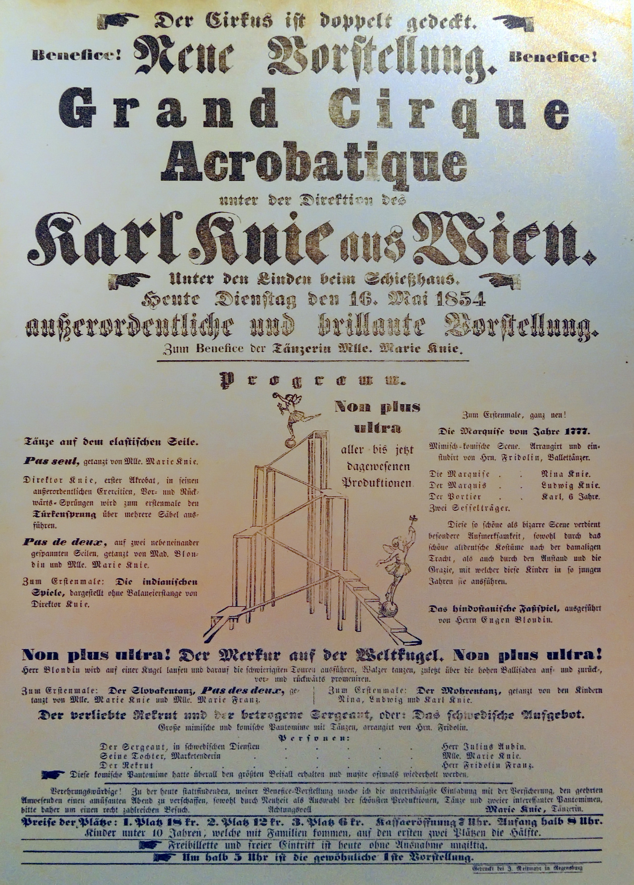 Collection of the Stadtmuseum) in Rapperswil (Switzerland)